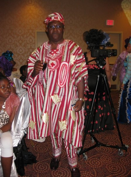 Western Nigeria social attire. This is an image of Cultural Fashion or Adornment from Nigeria